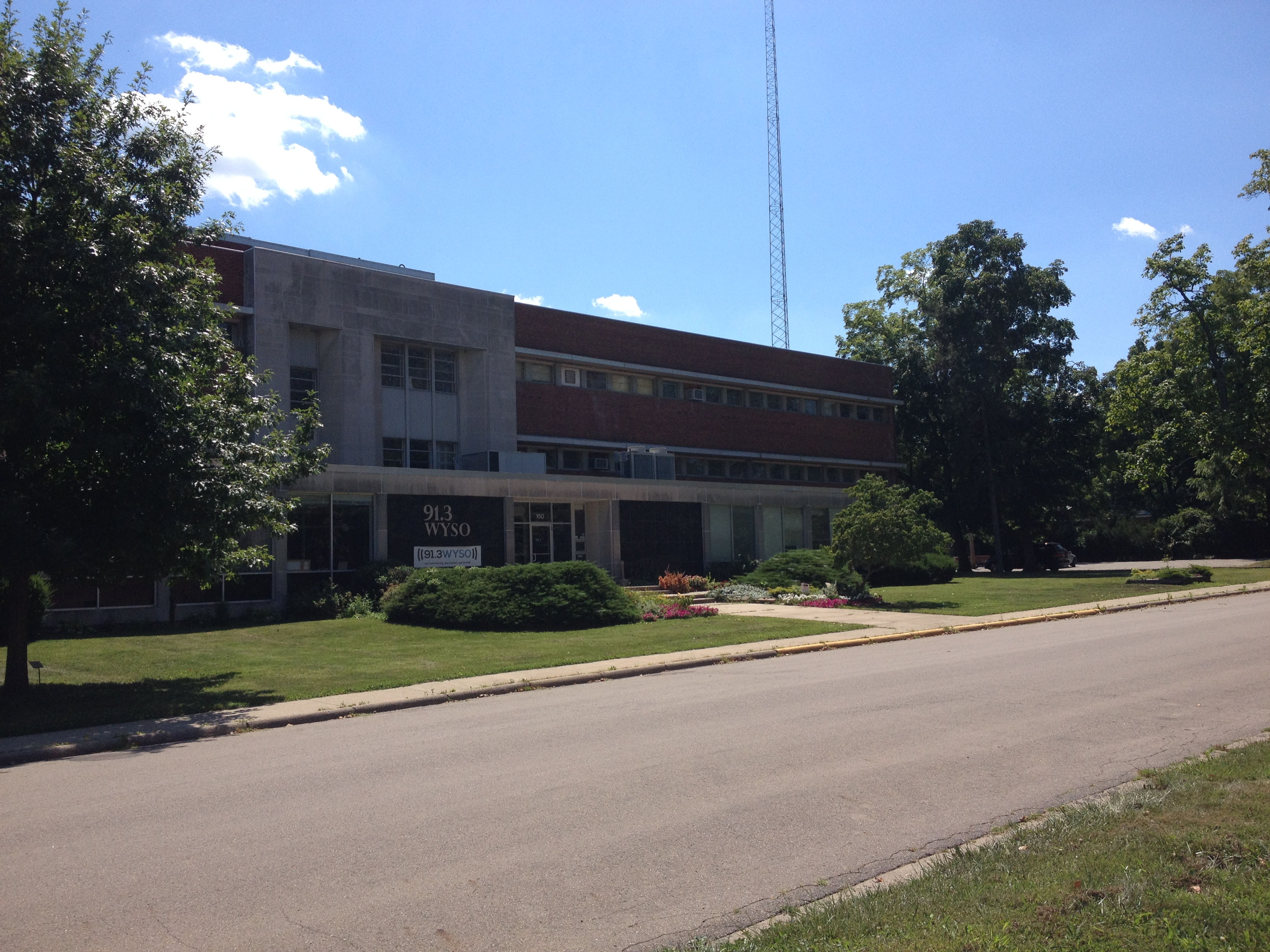 Front of WYSO building in Yellow Springs, Ohio.